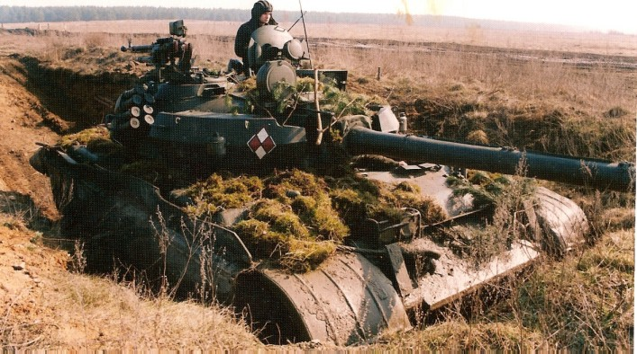 T-55AM Merida main battle tank of the Polish 4th Armored Cavalry Brigade.